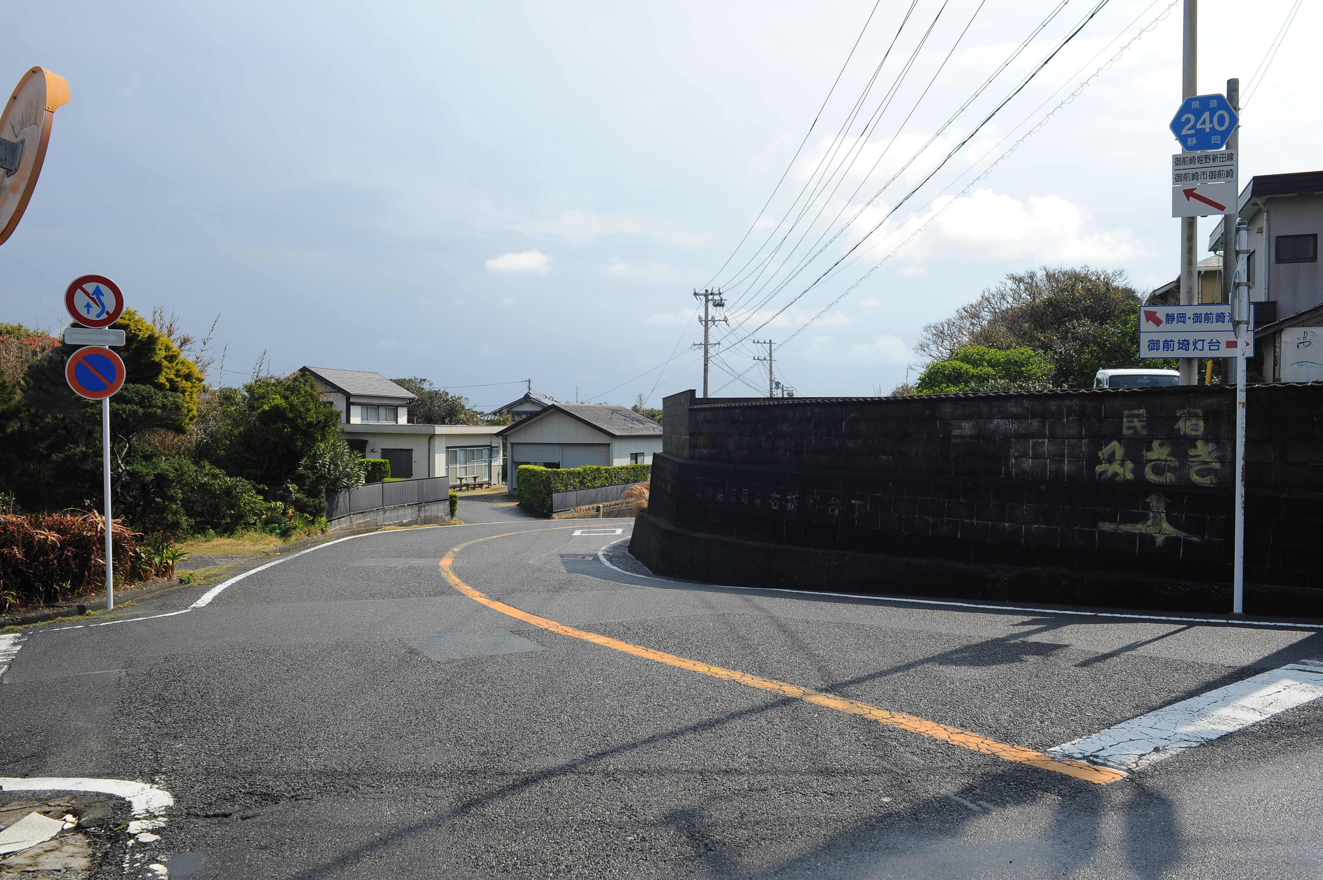 Shizuoka Prefectural Route 240, Omaezaki, Shizuoka